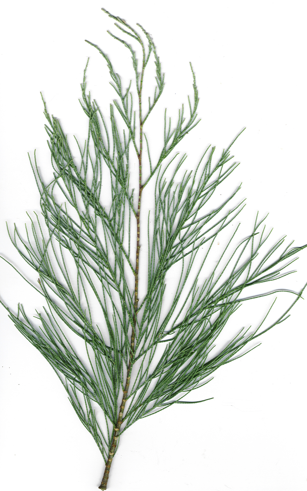 Tamarix aphylla (plant). Location: Kauai, Lydgate Park